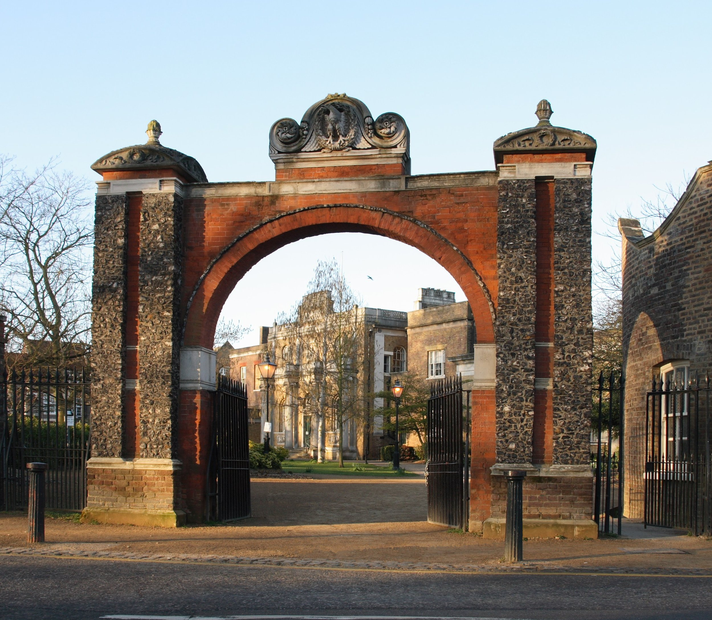 Pitzhanger Manor Gates and entrance to Walpole Park. Designed by John Soane. An English Heritage, Grade I listed structure. Pitzhanger Manor in the background; also a Grade I listed building.